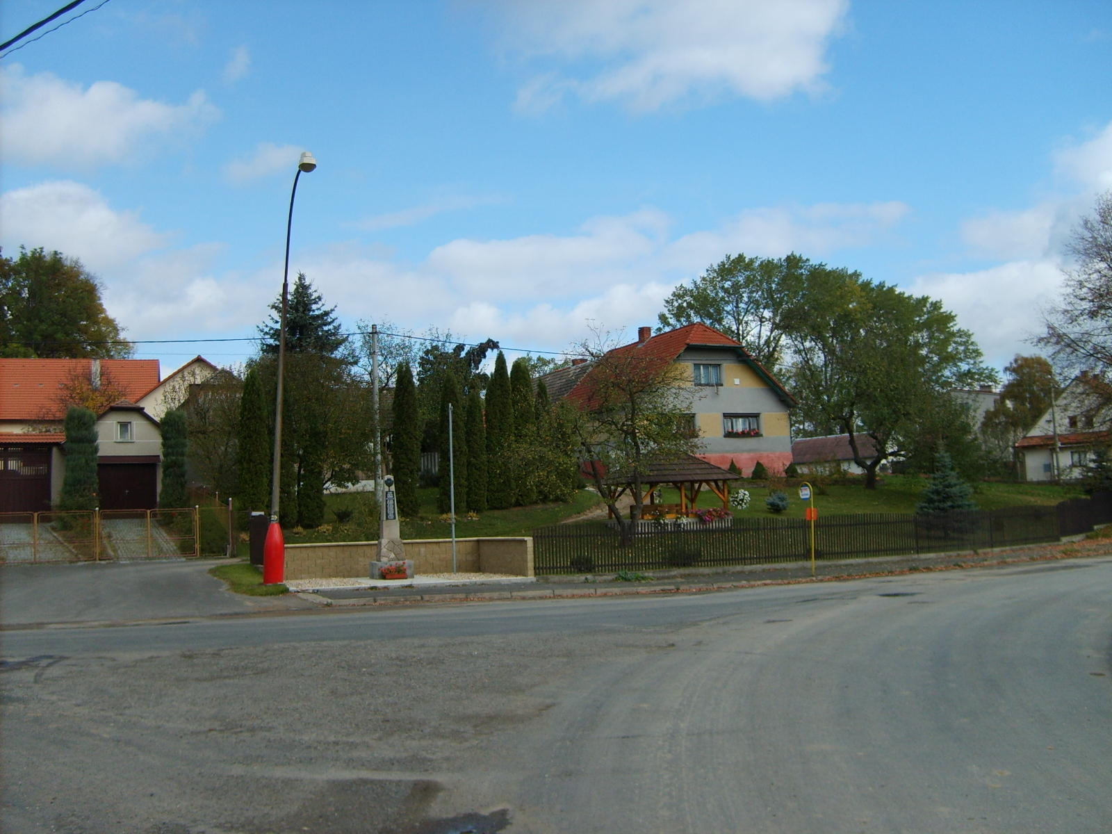 Bus stop and monument in Studený.